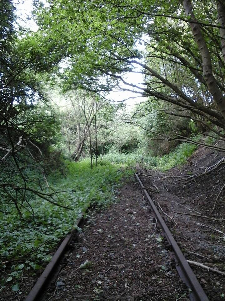 The view of de railwail at Dergneau.